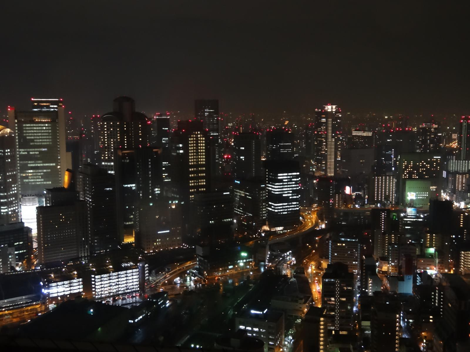 Umeda Sky Building view from the rooftop observatory by night